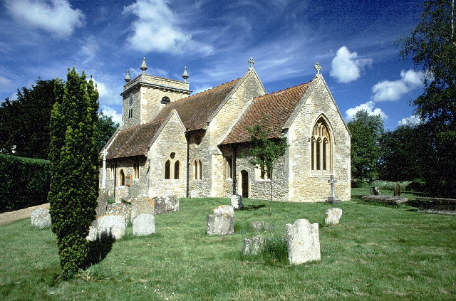 Church of England parish church of St. John the Baptist, Stadhampton, Oxfordshire. Original church sited here in 1146, but the earliest parts of the current church are 15th century. The bell tower was built in about 1737 and the church was extensively rebuilt in 1875.